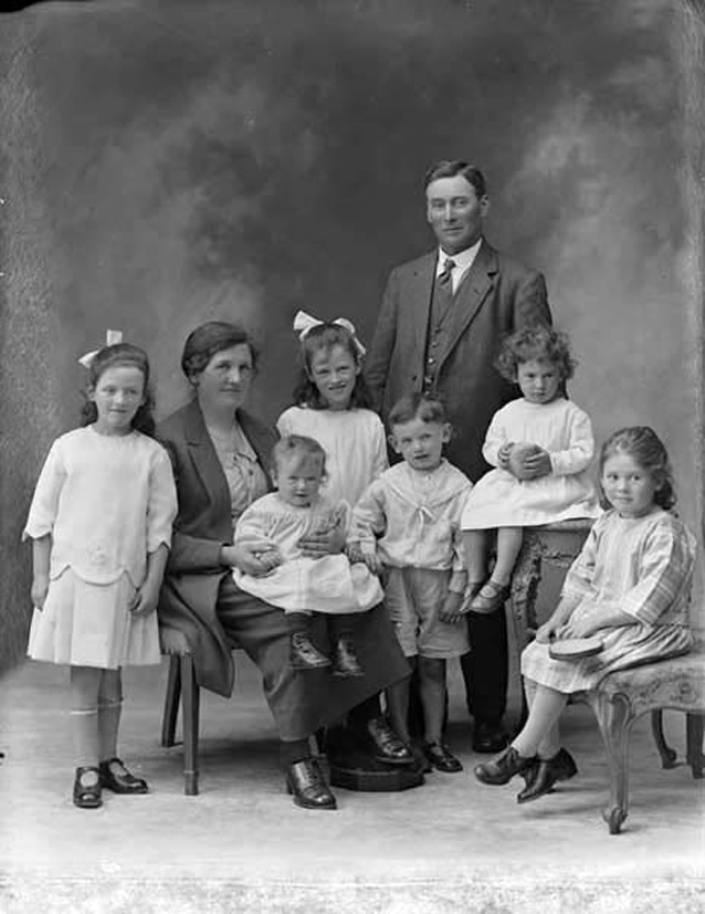 This is the Veale family of Ballynageeragh, Dunhill, Co. Waterford. Date: Thursday, 21 July 1925 NLI Ref.: P_WP_3315